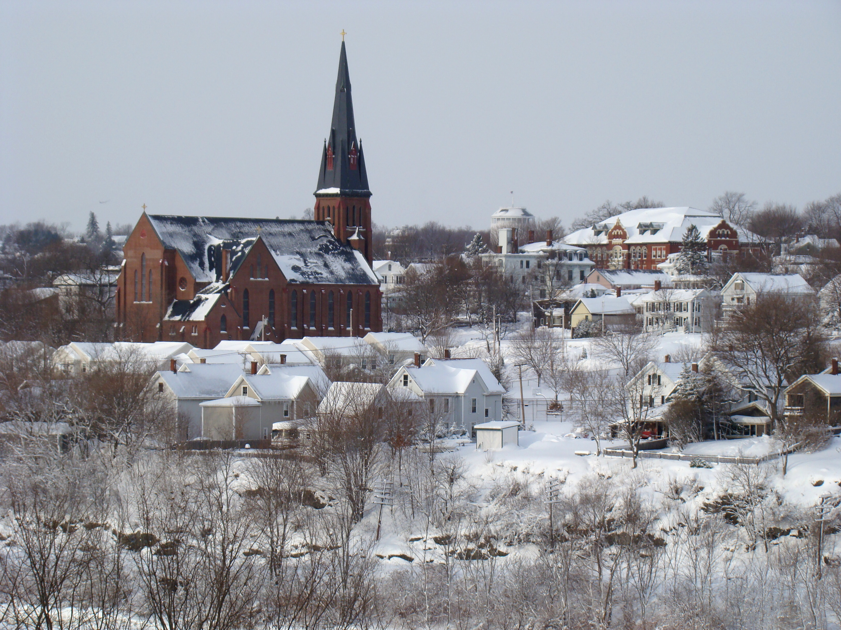 This is a view of Bangor, Maine from the Indian Trail Park in Brewer, Maine.